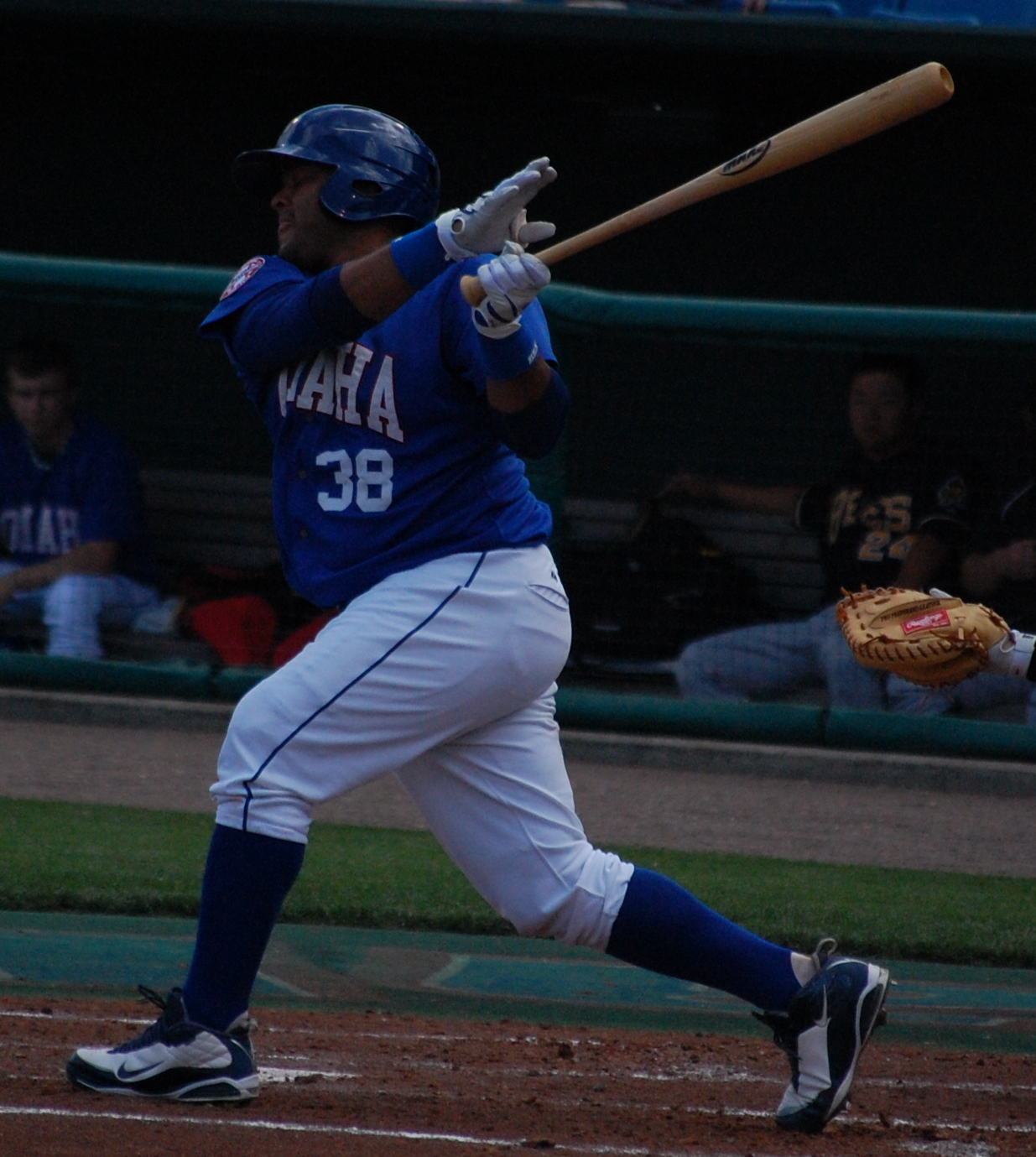 Edwin Bellorin bats for the Omaha Royals at Johnny Rosenblatt Stadium in Omaha in 2010.